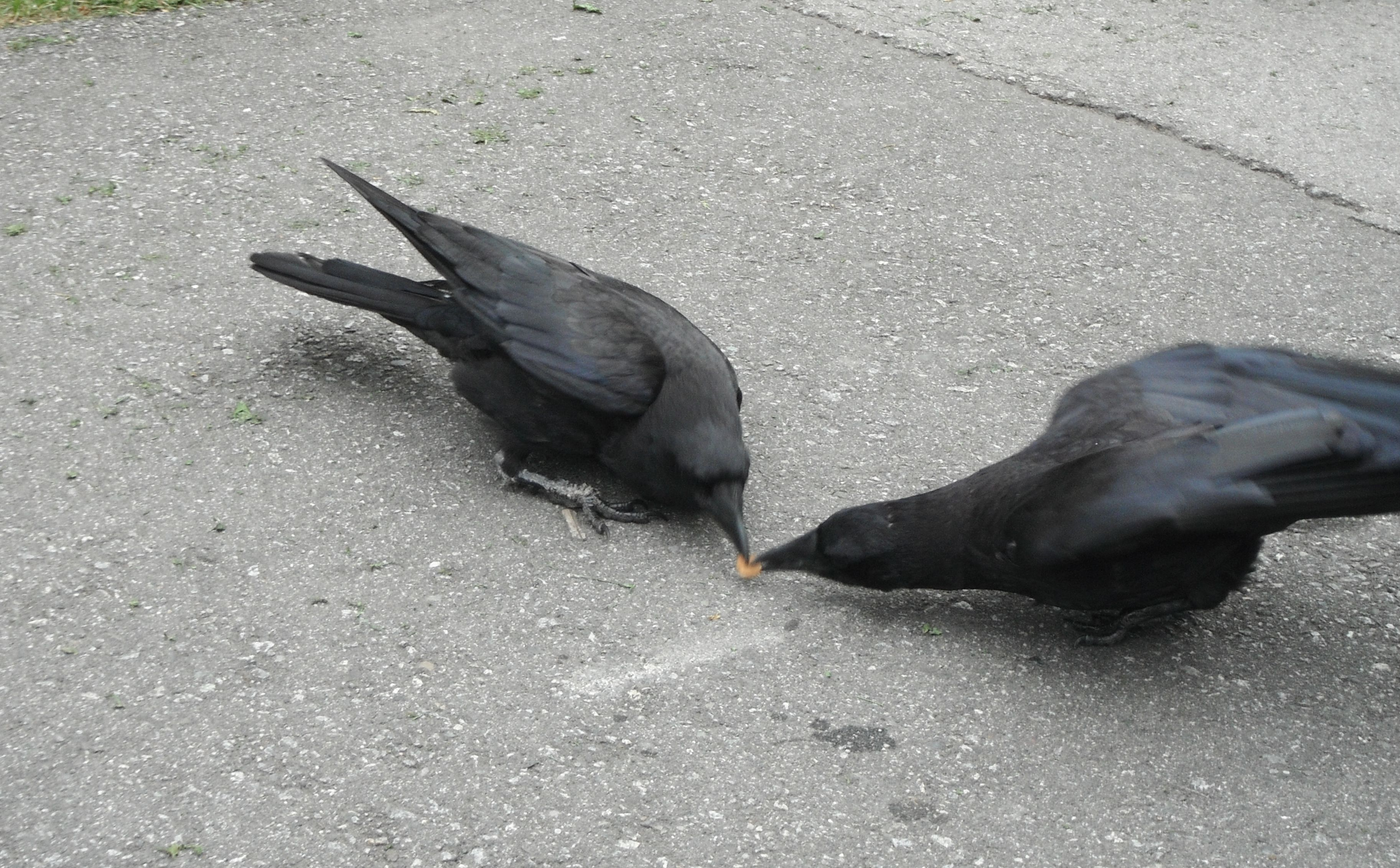 Northwestern Crow Corvus caurinus, food tug.